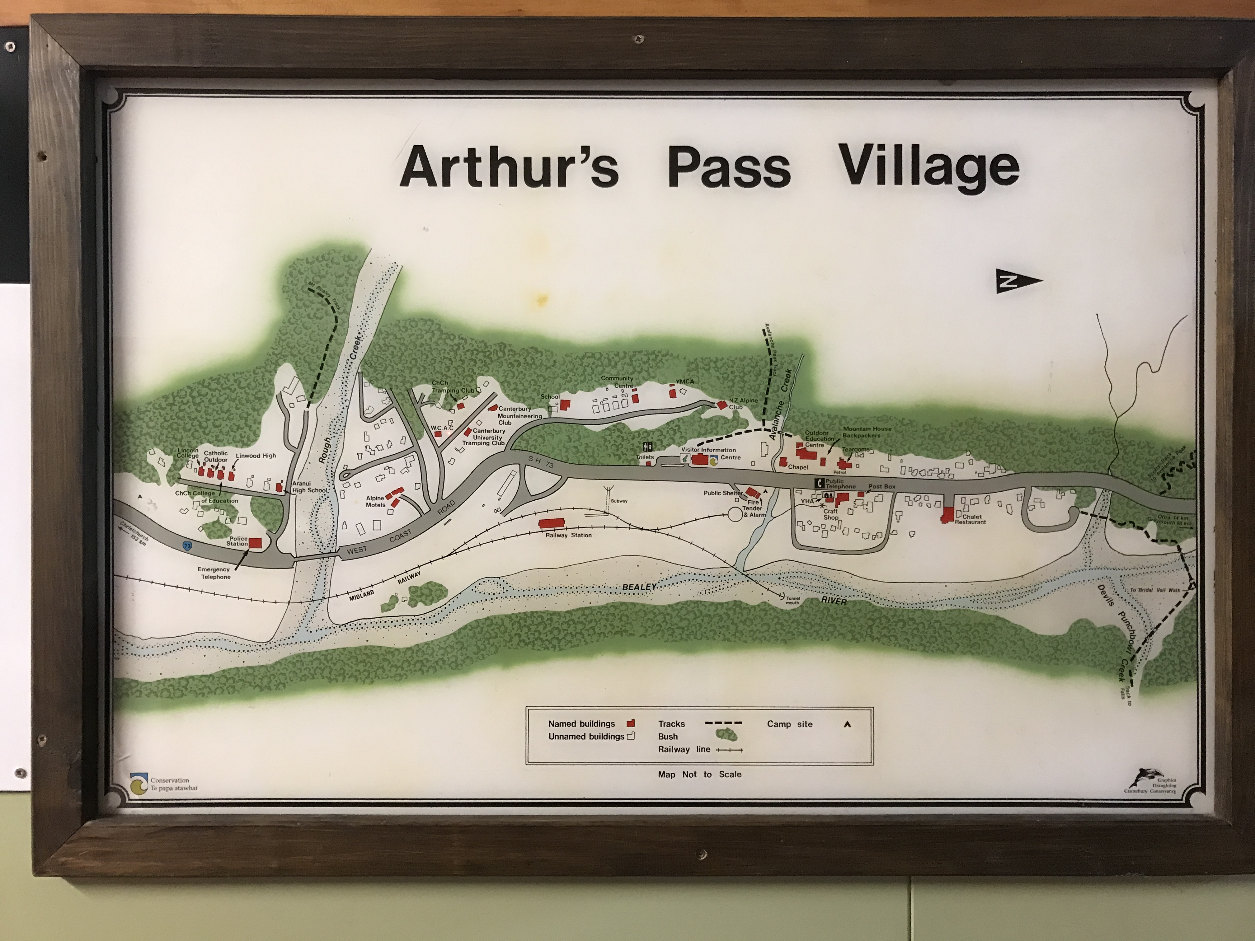 Map showing the locations of various club huts and village facilities. Believe to be dated to the 1990s.